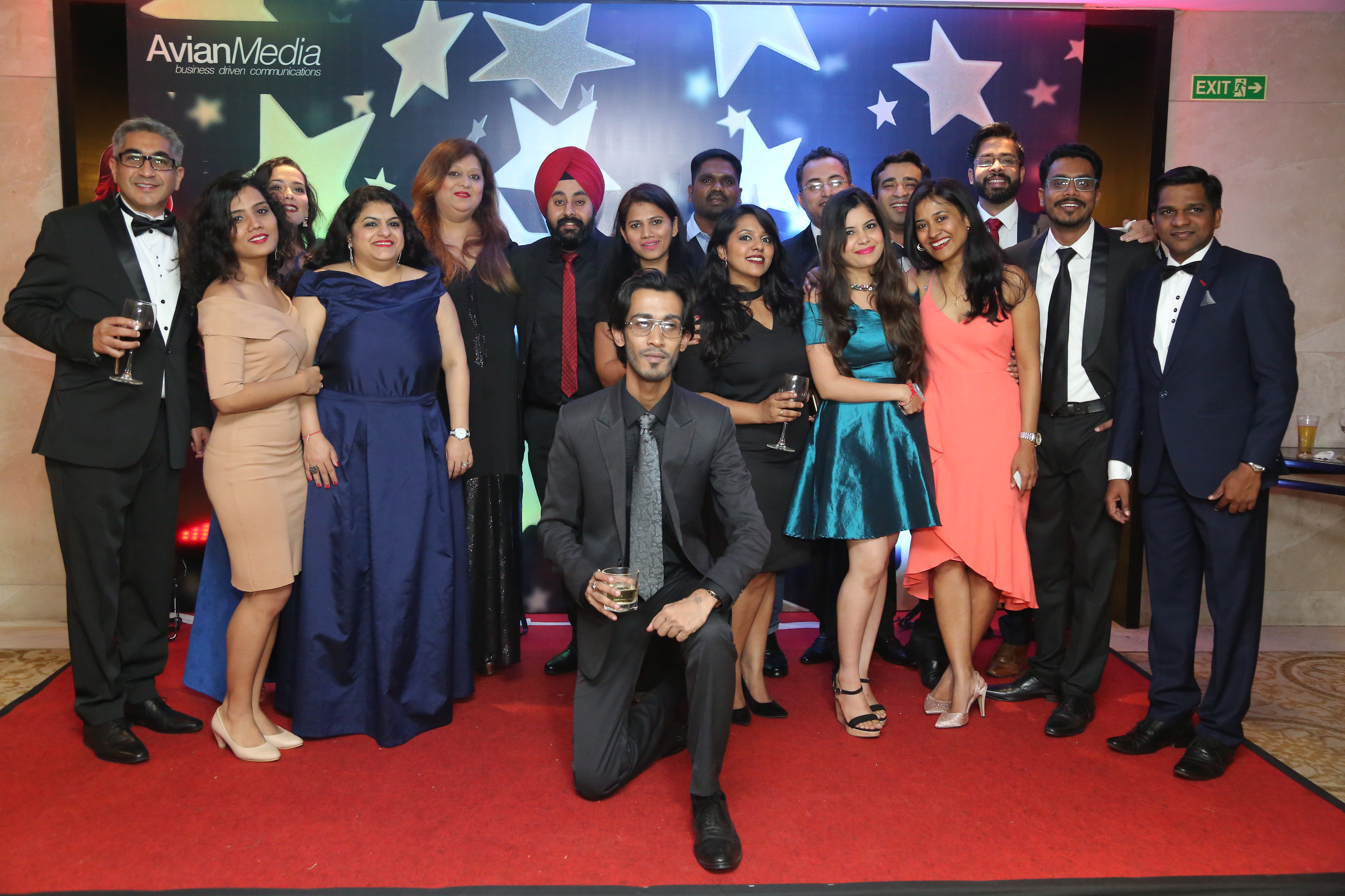 This image is clicked at the 2017 annual award ceremony of PR consultancy - Avian WE.